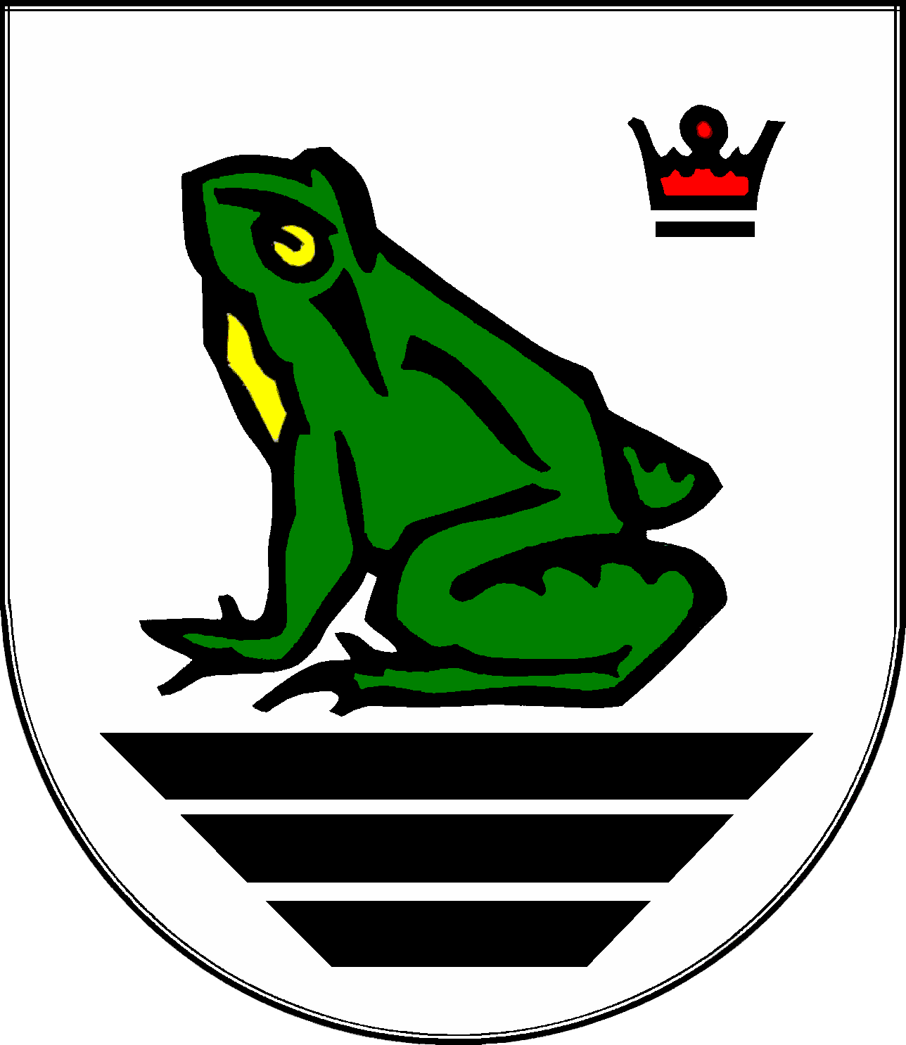 Coat of arms of the municipality Altenmoor in Schleswig-Holstein, Germany.